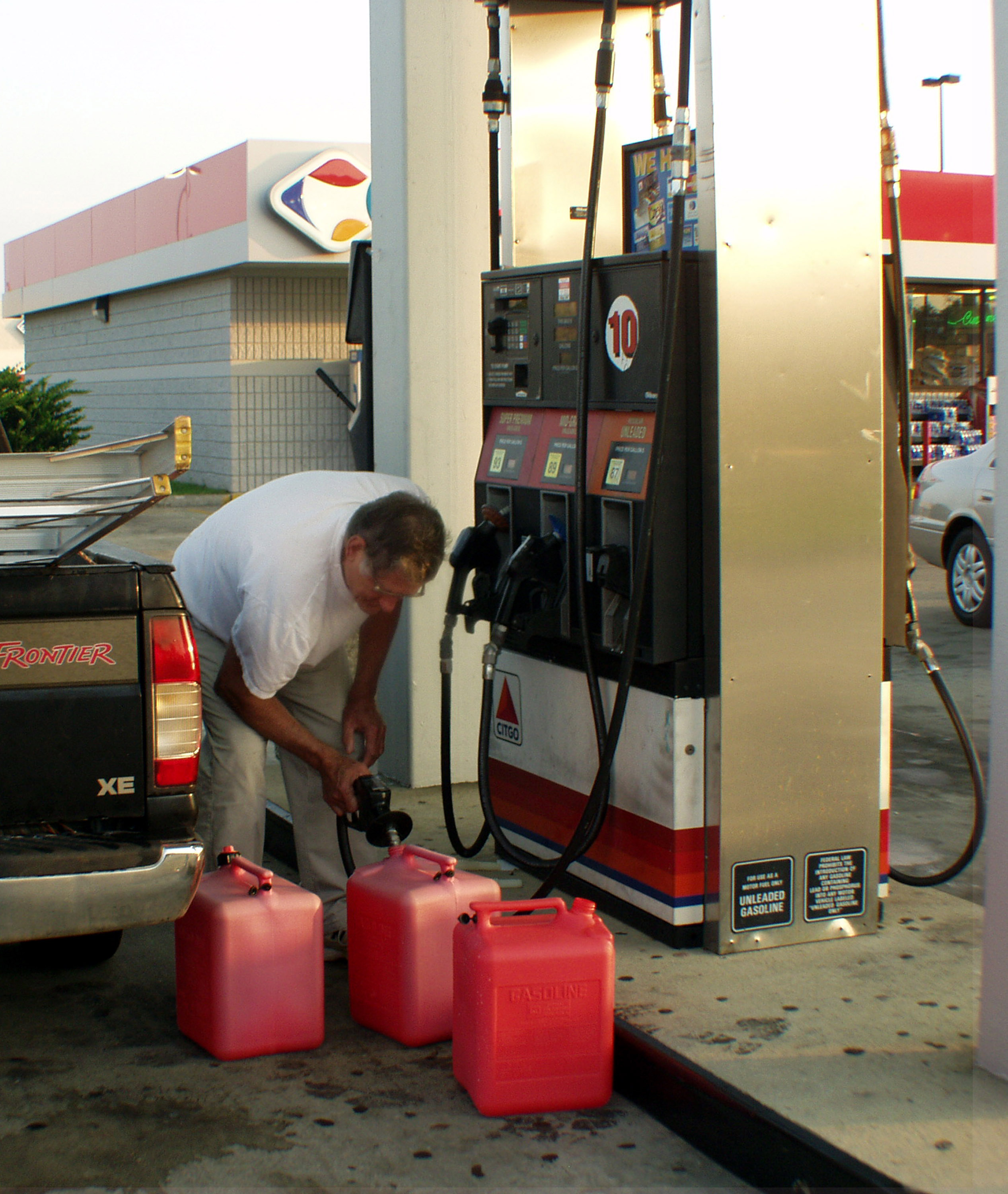 Pensacola, Fl – August 26, 2005. A resident of Pensacola, Fla. fills up his gasoline cans at a local gas station. Gasoline shortages were common during Hurricane Dennis. Nicolas Britto/FEMA